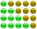 A rectangle of objects measuring 4 x (4+1) = 20 is composed of two triangular numbers T_4 = 10.